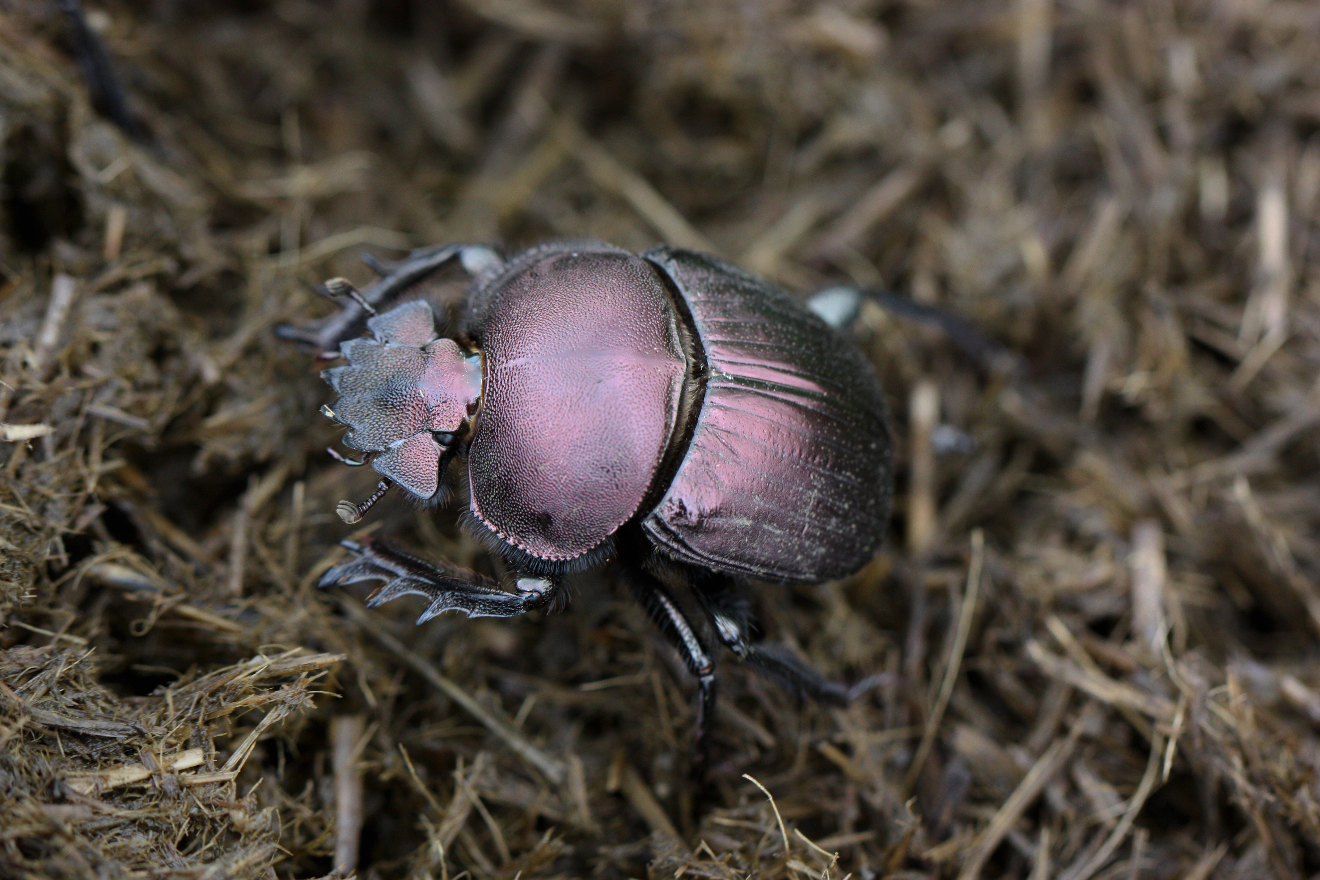 Plum dung beetle (Anachalcos convexus) Phinda Private Game Reserve, Kwa-Zulu Natal, South Africa